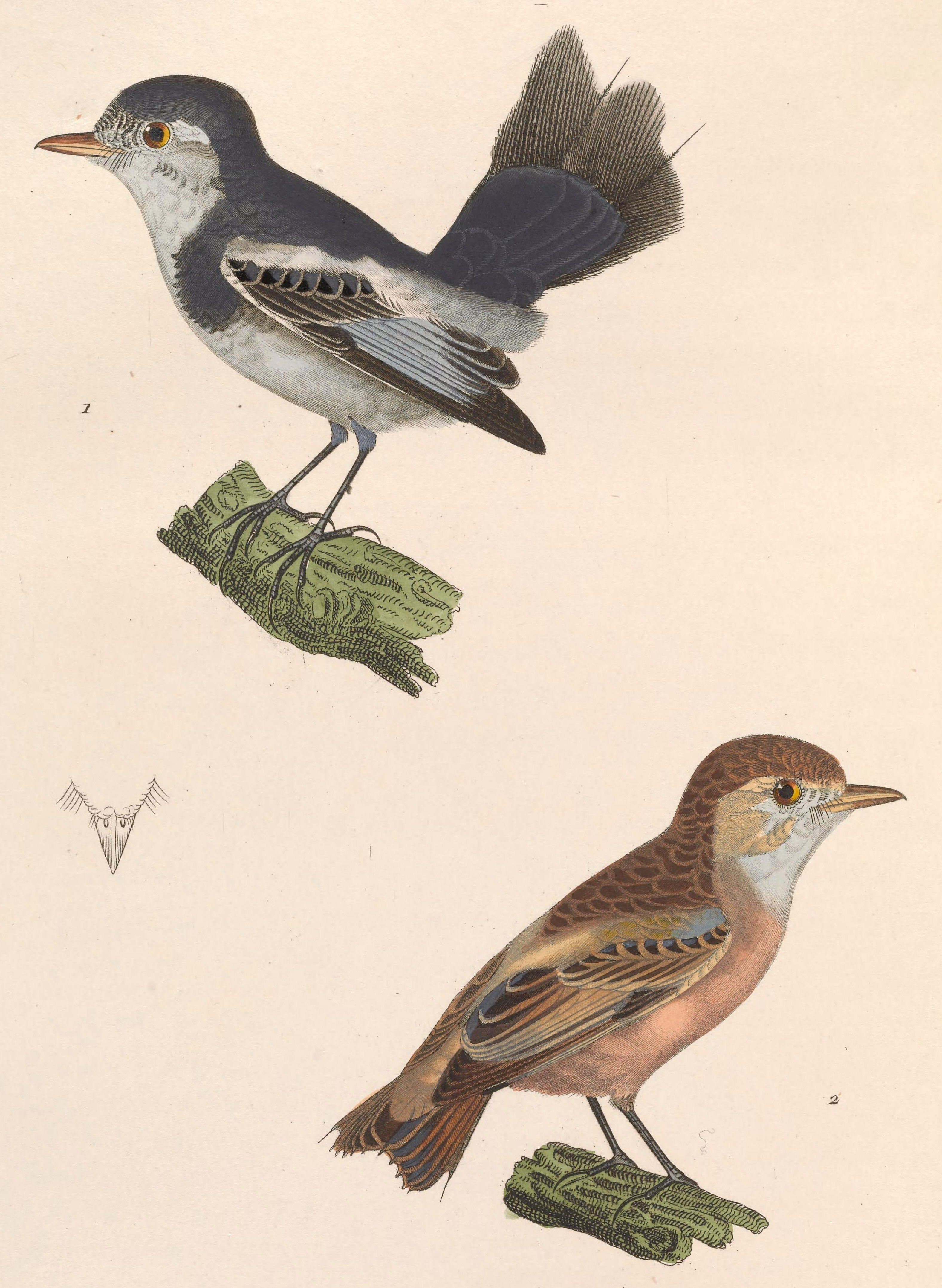 « Muscicapa alector » = Alectrurus tricolor (Cock-tailed Tyrant) - male and female